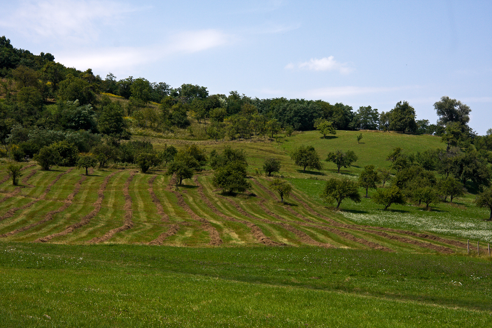 A bunch of trees spread around an open field by the side of the road leading from Fagaras to Sibiu, as seen on a warm summer day.